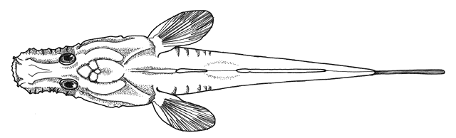 The illusctration of the Duckbill pugolovka (Anatirostrum profundorum) from: Berg, L.S., 1965. Freshwater fishes of the U.S.S.R. and adjacent countries. volume 3, 4th edition. Israel Program for Scientific Translations Ltd, Jerusalem. (Russian version published 1949).